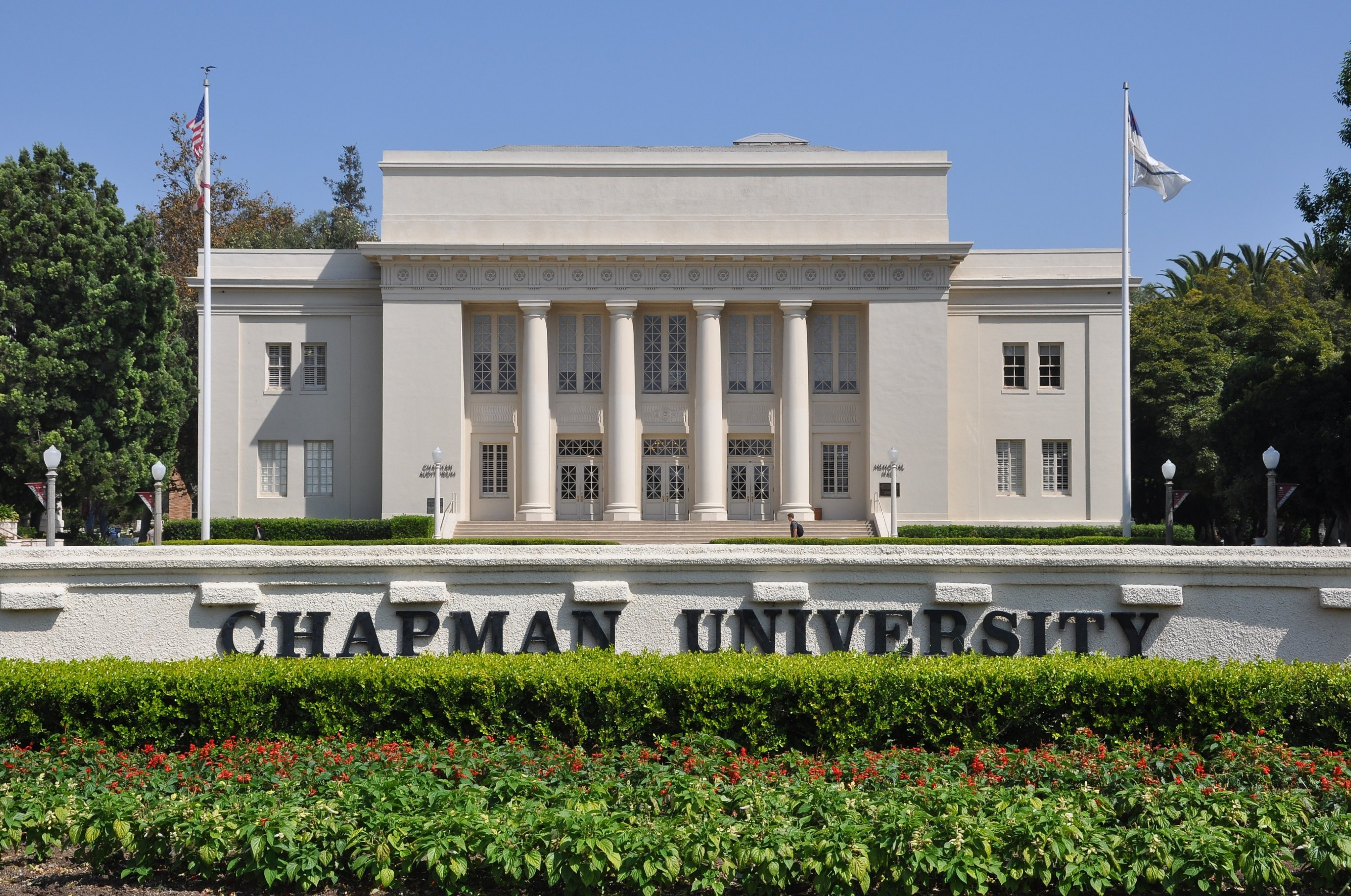 Williams Hall at Chapman University - photo taken September 16, 2008